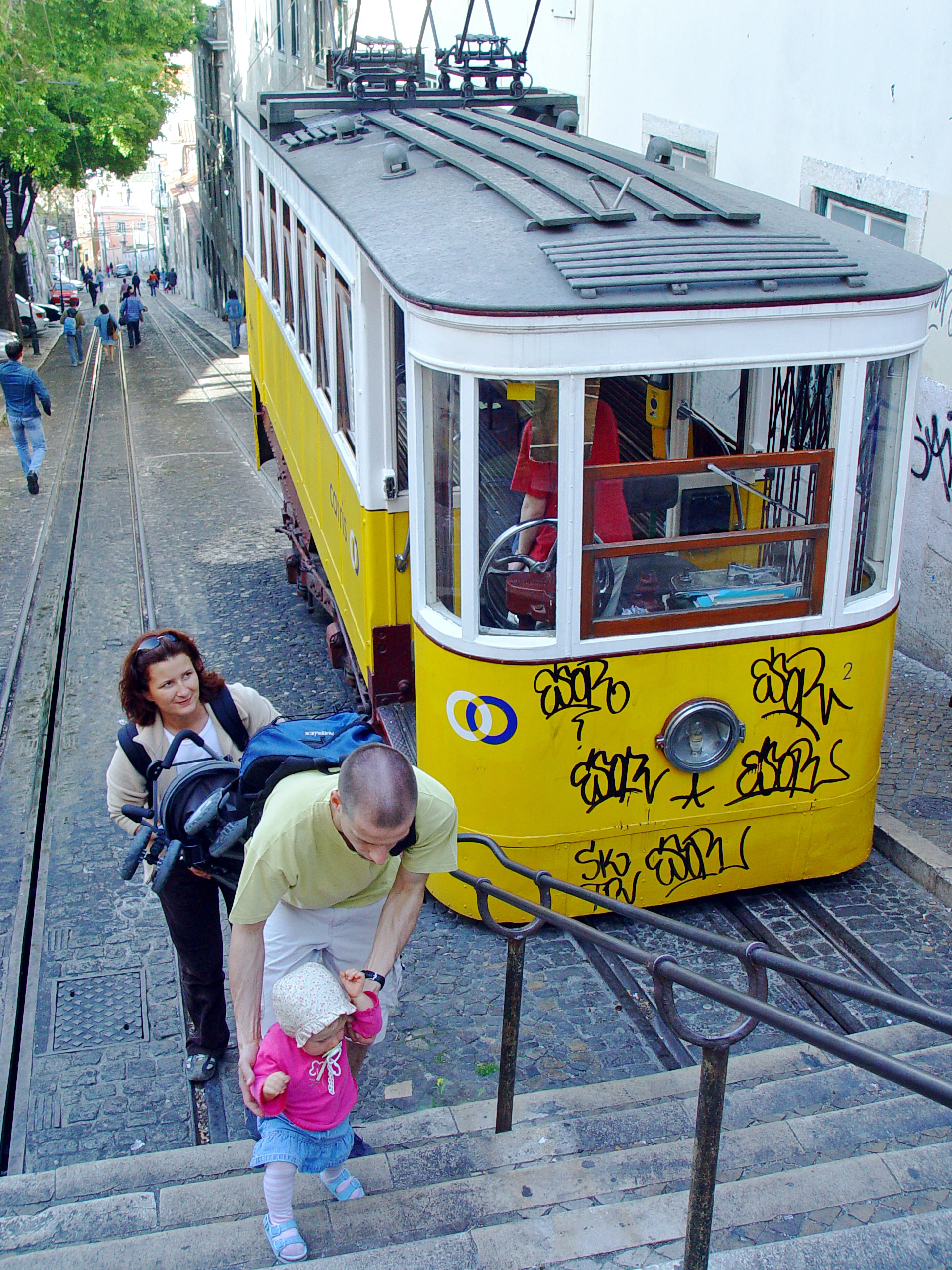 Lisbon Funicular